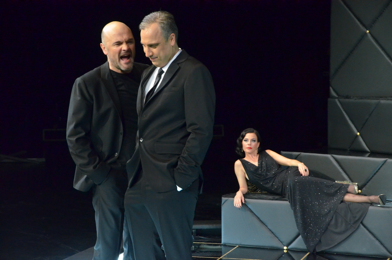 "The Misanthrope", a 17th-century comedy written by Molière; conception and direction Iva Milošević; Drama of the Serbian National Theatre, Novi Sad, 2014/15; Nenad Pećinar, Igor Pavlović, Jovana Stipić Srpski (latinica): „Mizantrop” Molijerova komedija iz 17. veka; koncept i režija Iva Milošević; Drama Srpskog narodnog pozorišta, Novi Sad, 2014/15; Nenad Pećinar, Igor Pavlović, Jovana Stipić Српски (ћирилица): „Мизантроп“ Молијерова комедија из 17. века; концепт и режија Ива Милошевић; Драма Српског народног позоришта, Нови Сад, 2014/15; Ненад Пећинар, Игор Павловић, Јована Стипић